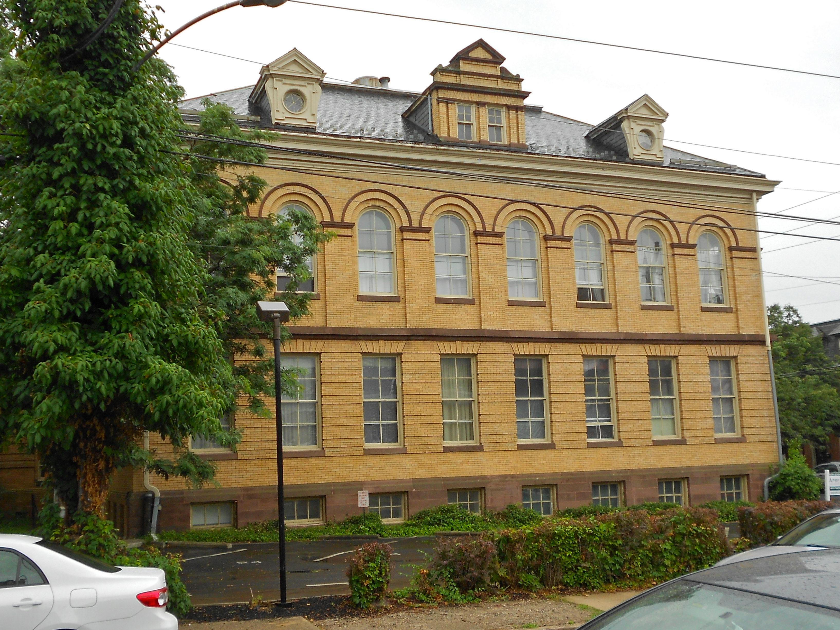 Simon Cameron School, listed on the NRHP on April 24, 1986, at 1839 Green Street, Harrisburg, Pennsylvania.